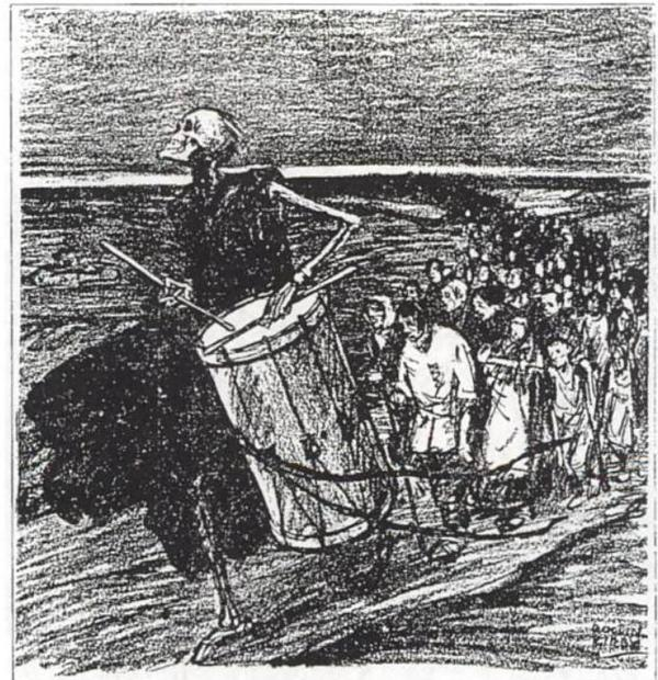 "On the Road to Moscow", by Rollin Kirby. Cartoon depicts the Grim Reaper leading a line of Soviets, suffering under the 1921 famine and bound to one-another, to Moscow. For this cartoon Kirby received the inaugural Pulitzer Prize for Editorial Cartooning in 1922.